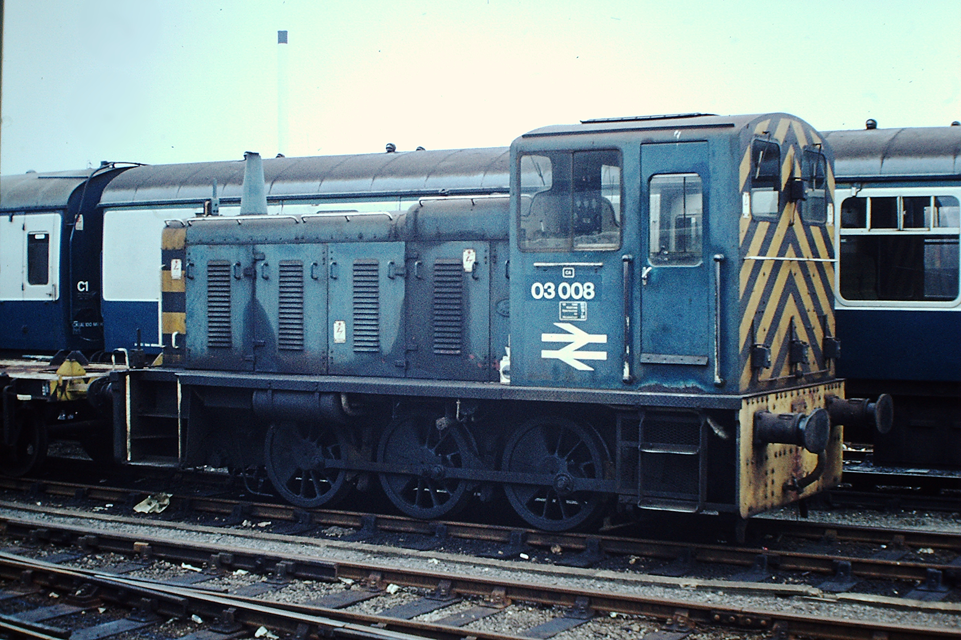 03 008 BR Class "03" 204 hp 0-6-0 shunter No.03 008 (ex-D2008) with 'Saxa' chimney in BR blue livery at Cambridge acting as station pilot, 10/75. Scanned slide taken with an Exacta.